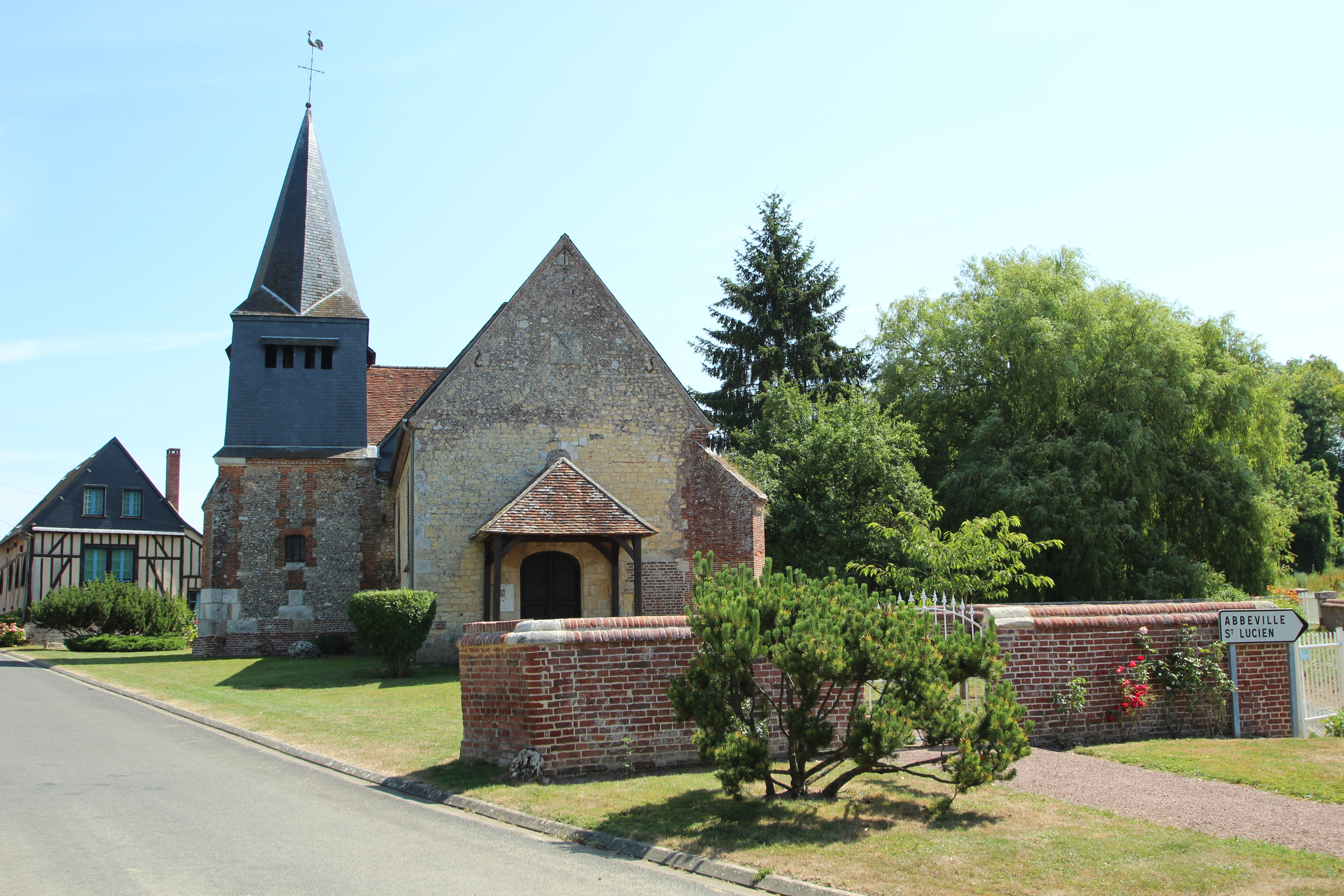 Saint Lucian church in Fontaine-Saint-Lucien, France This image was uploaded as part of L'Été des villes 2015.